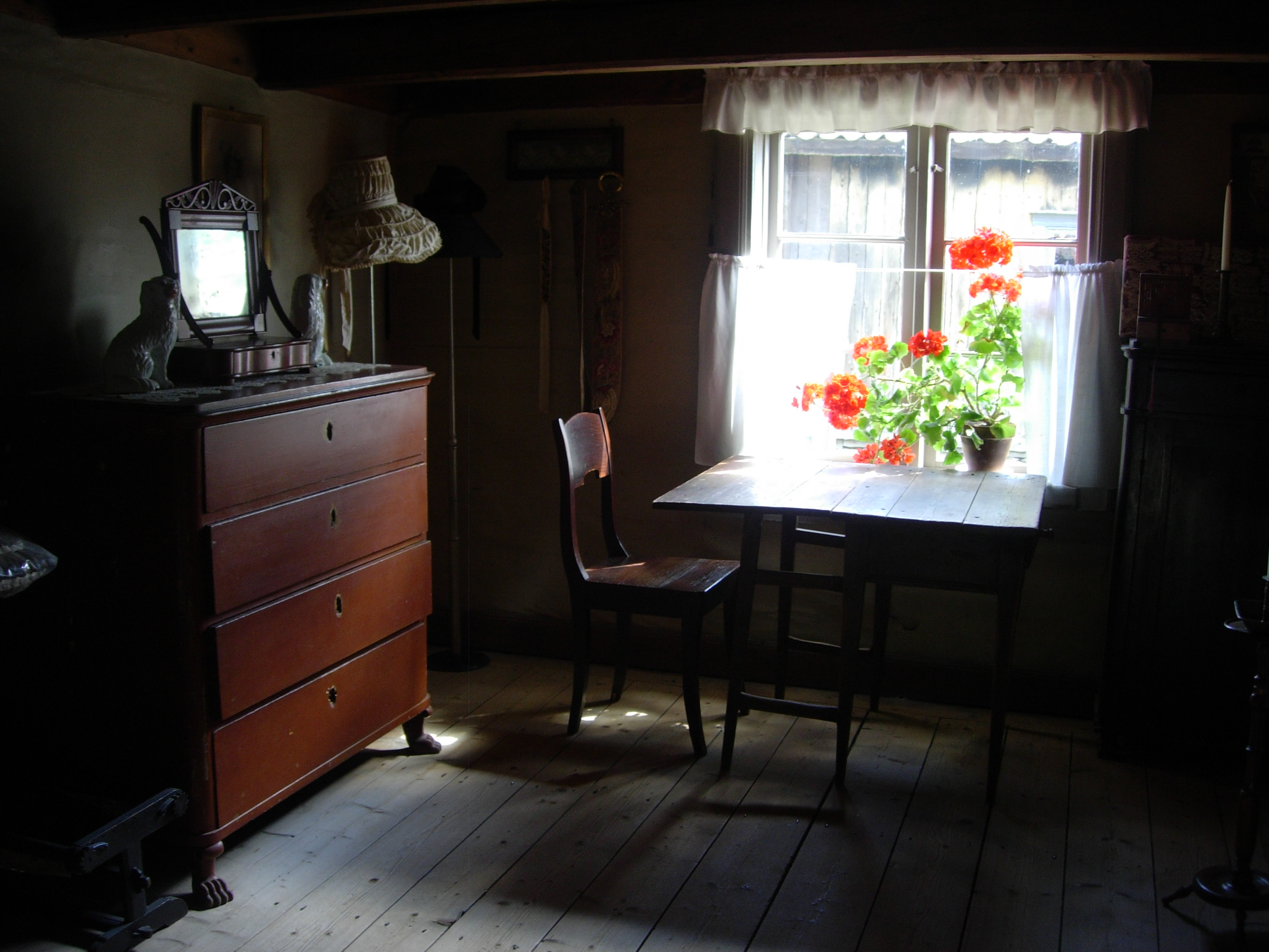 Luostarinmäki Handicrafts Museum, Mrs. Fridén's room